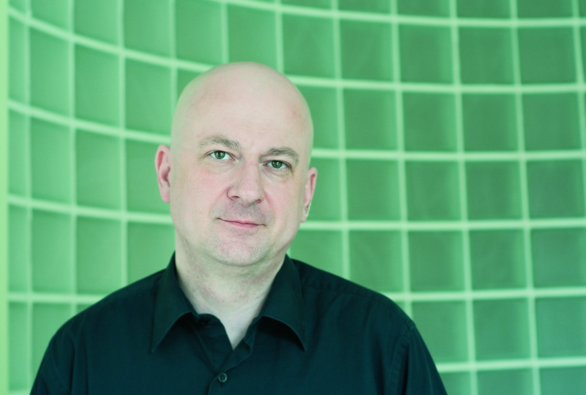 Tomas Zabransky